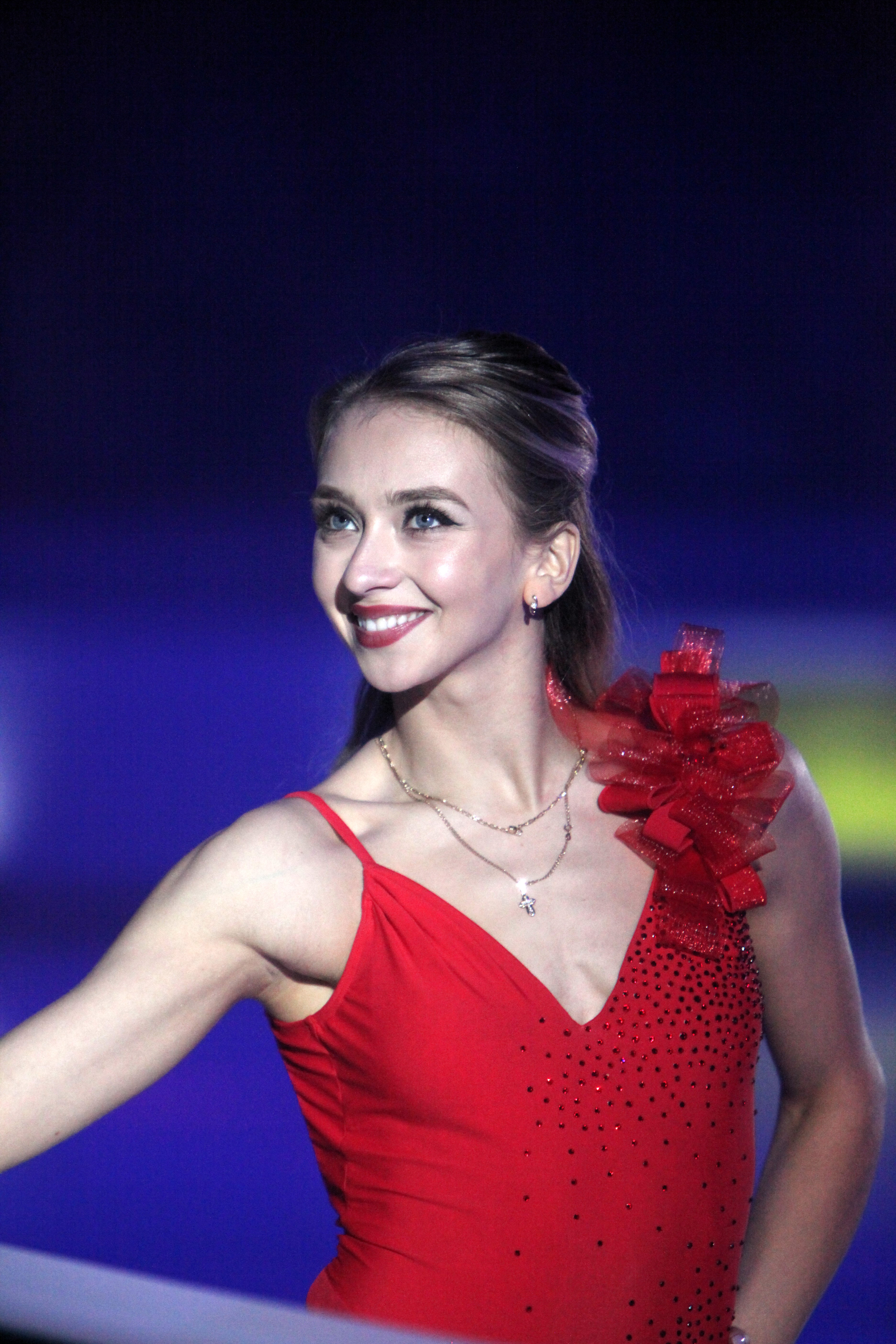 Victoria Sinitsina and Nikita Katsalapov during the gala at the Internationaux de France de Patinage 2018.